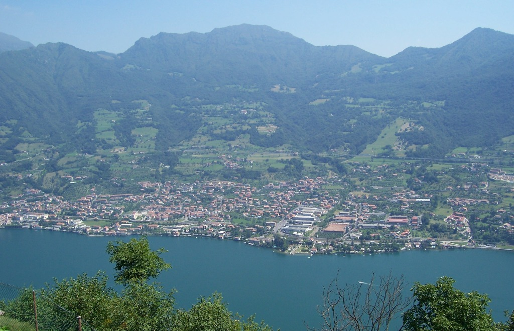 Sale Marasino from Montisola